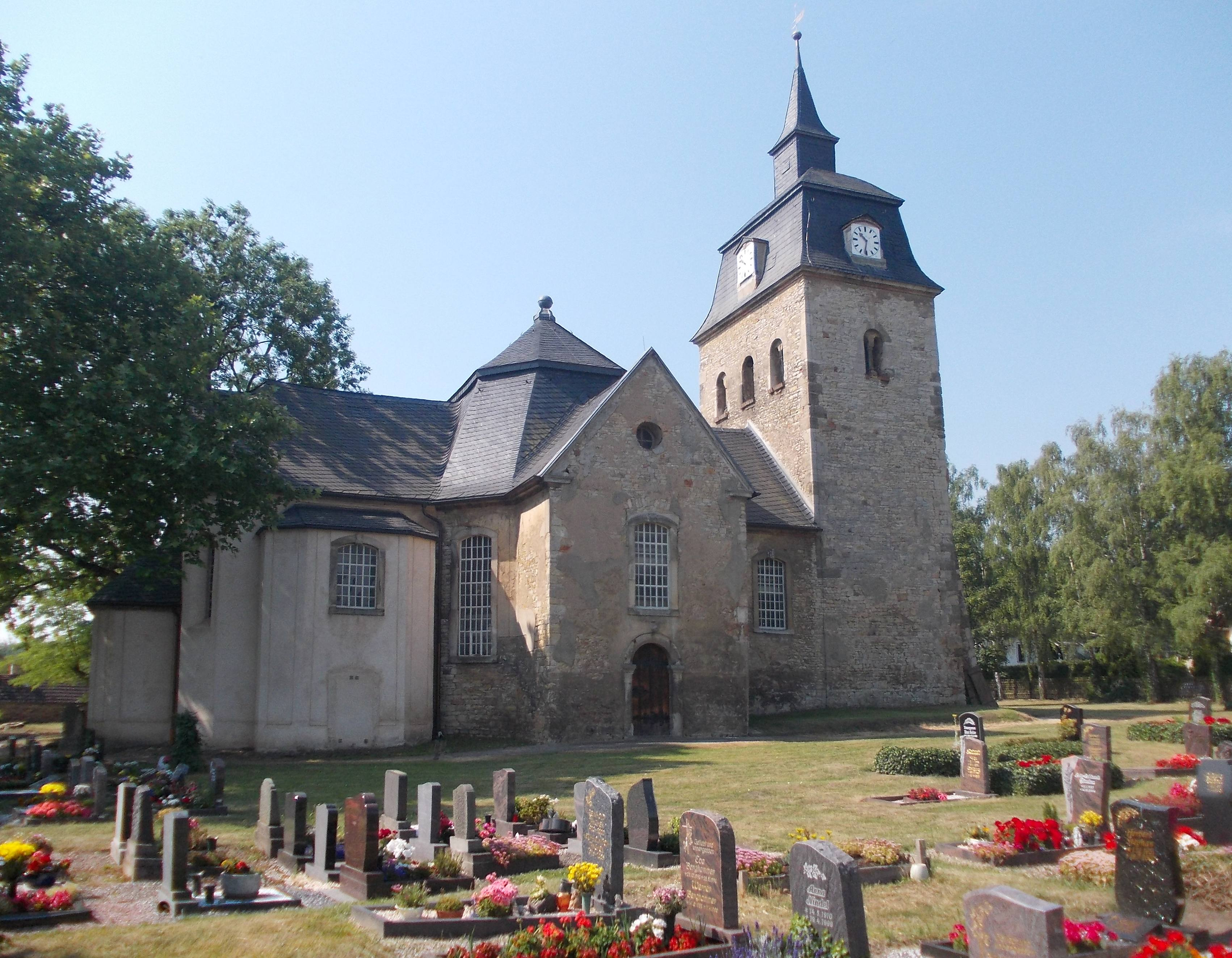 Krumpa church (Braunsbedra, district: Saalekreis, Saxony-Anhalt)